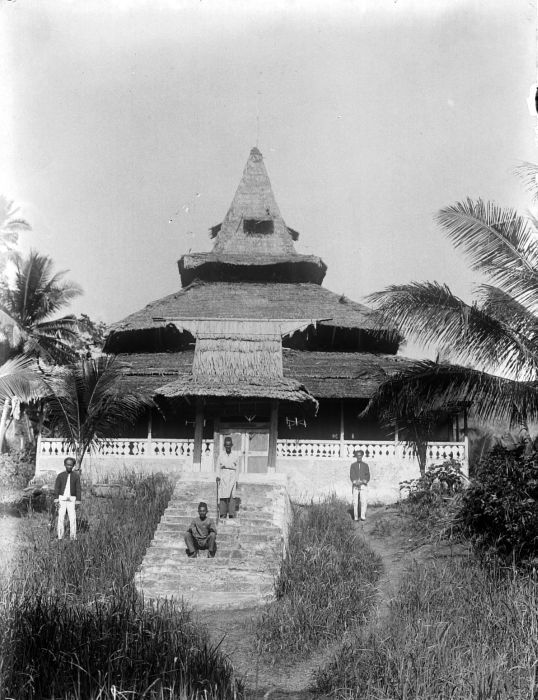 Mosque